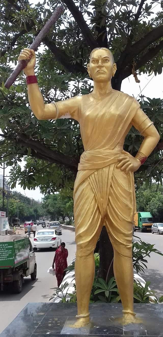 This is an statue of an freedom fighter Chakali illamaTelangana State